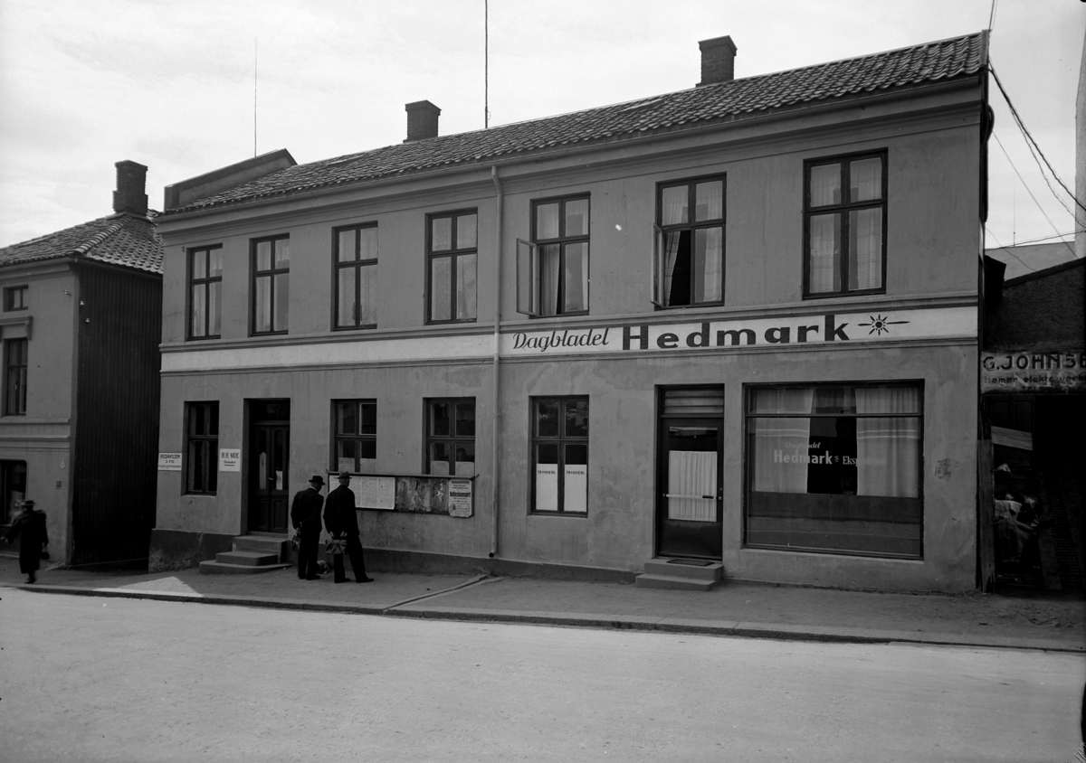 The exterior of Hamar Arbeiderblad during World War II, when it was for a time published under the name Hedmark.